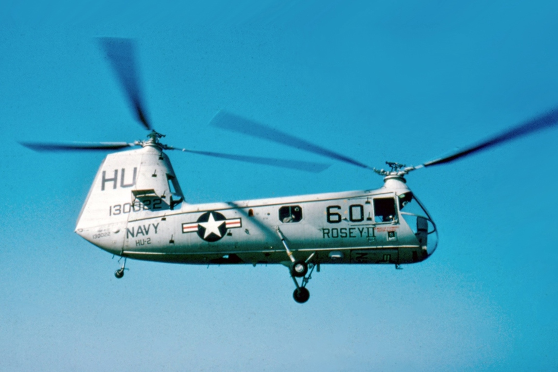 A U.S. Navy Piasecki HUP-2 Retriever helicopter (BuNo 130022) from Helicopter Utility Squadron HU-2 Fleet Angels, in 1959. HU-2 Det. 32 was assigned to Carrier Air Group 1 (CVG-1) aboard the aircraft carrier USS Franklin D. Roosevelt (CVA-42) for a deployment to the Mediterranean Sea from 13 February to 1 September 1959.